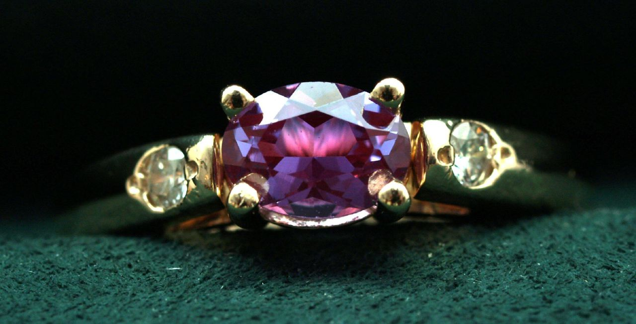 alexandrite diamond ring